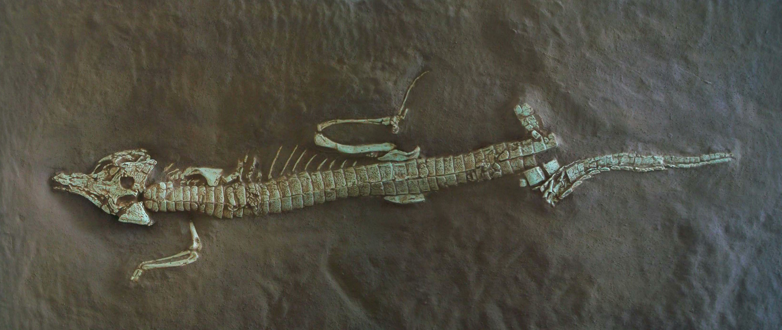 A fossil cast of Protosuchus richardsoni (specimen AMNH 3024) in the American Museum of Natural History.